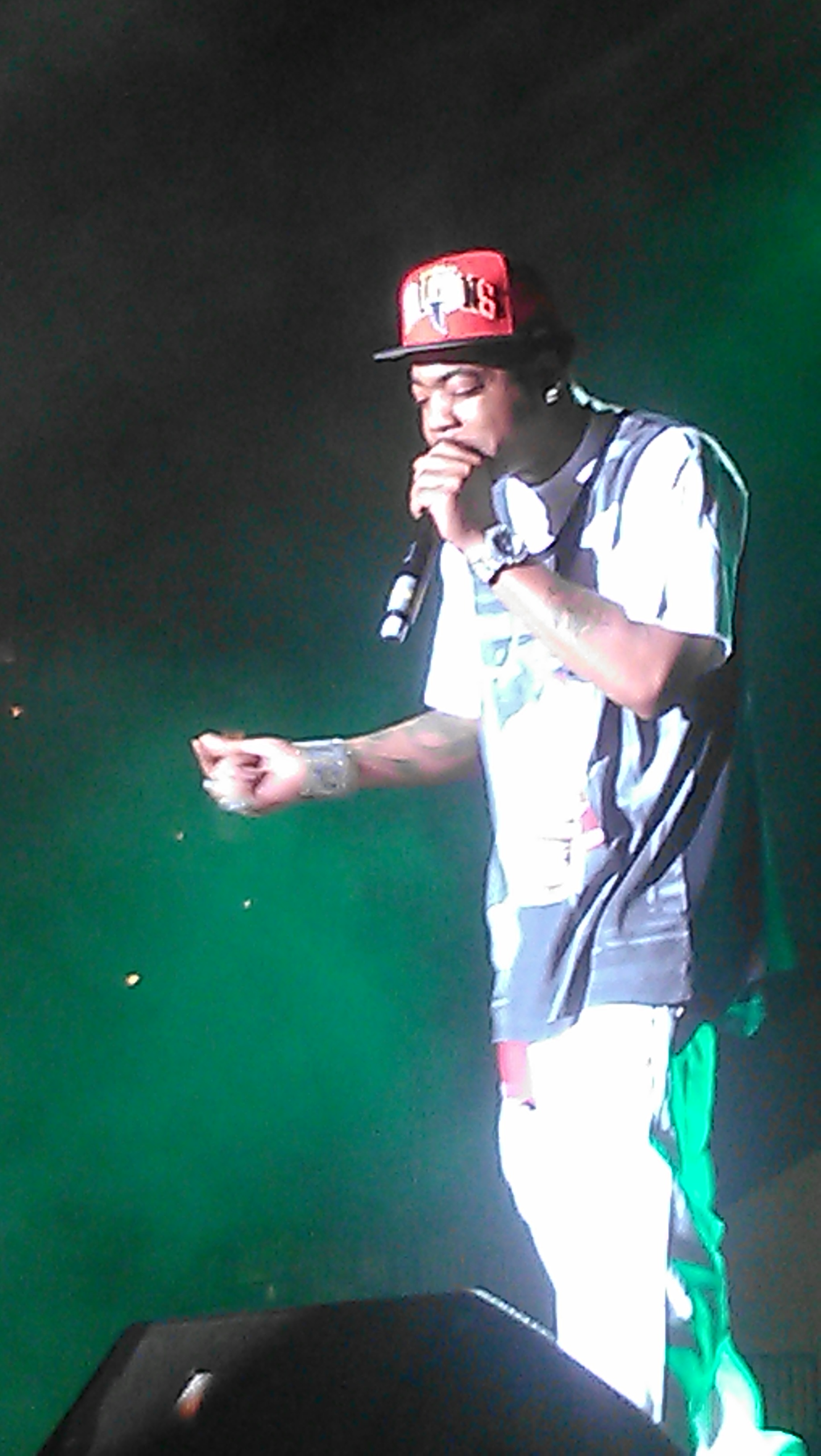 Webbie performing in Macon, Georgia July 25th 2014